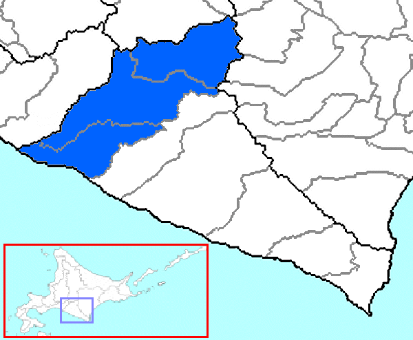 The location of Saru District in Hidaka Subprefecture, Hokkaido Prefecture, Japan.